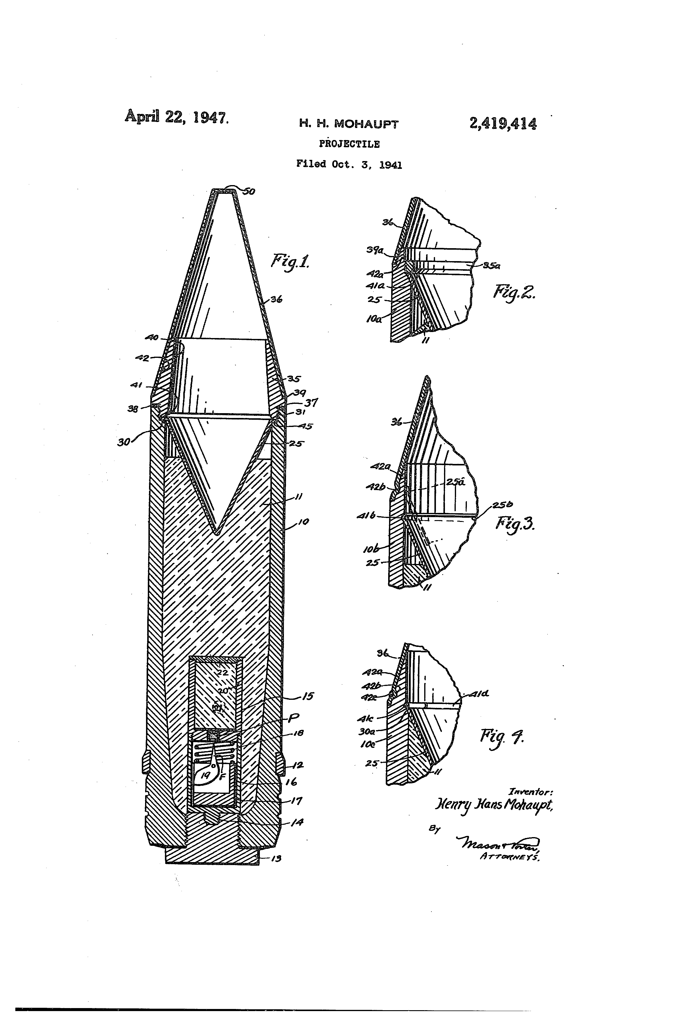 Shaped charge projectile in patent of Henry Hans Mohaupt